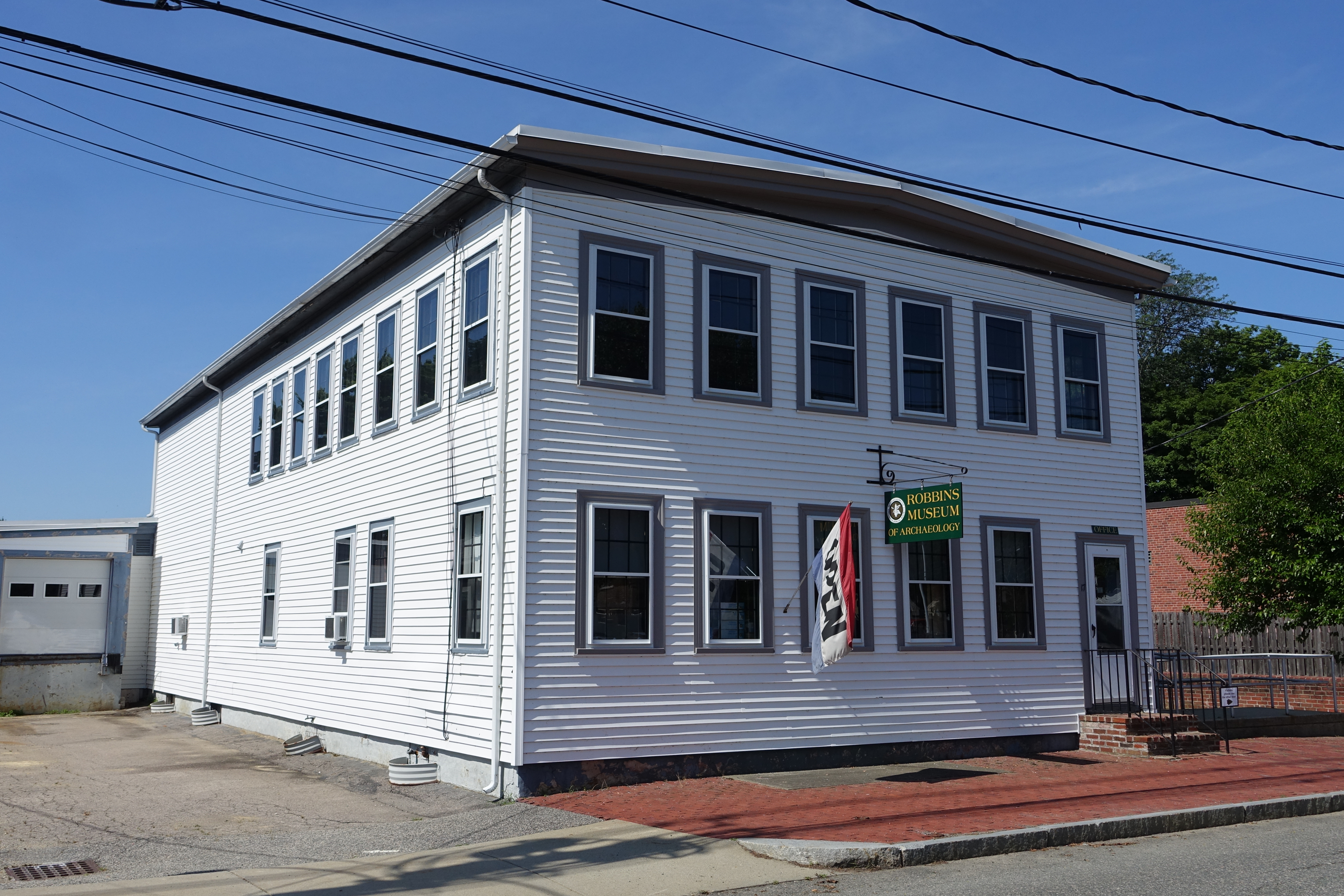 Robbins Museum - 17 Jackson Street, Middleborough, Massachusetts, USA. This museum displays items from the collection of the Massachusetts Archaeological Society.